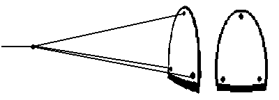 Basic diagram of a chip log.Please feel free to replace it with a better one.